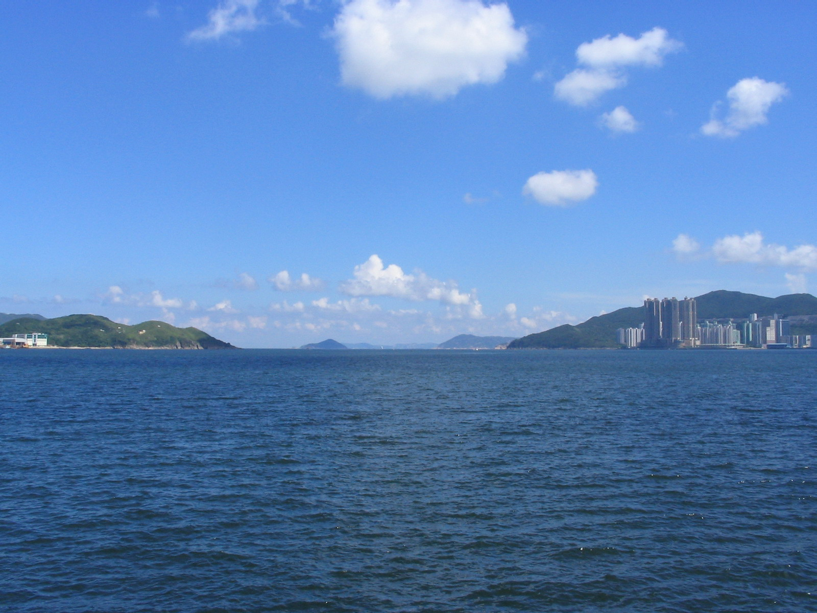 藍塘海峽 (左方為佛堂洲，右方為小西灣) Tathong Channel, Fat Tong Chau is on the left while Siu Sai Wan is on the right.